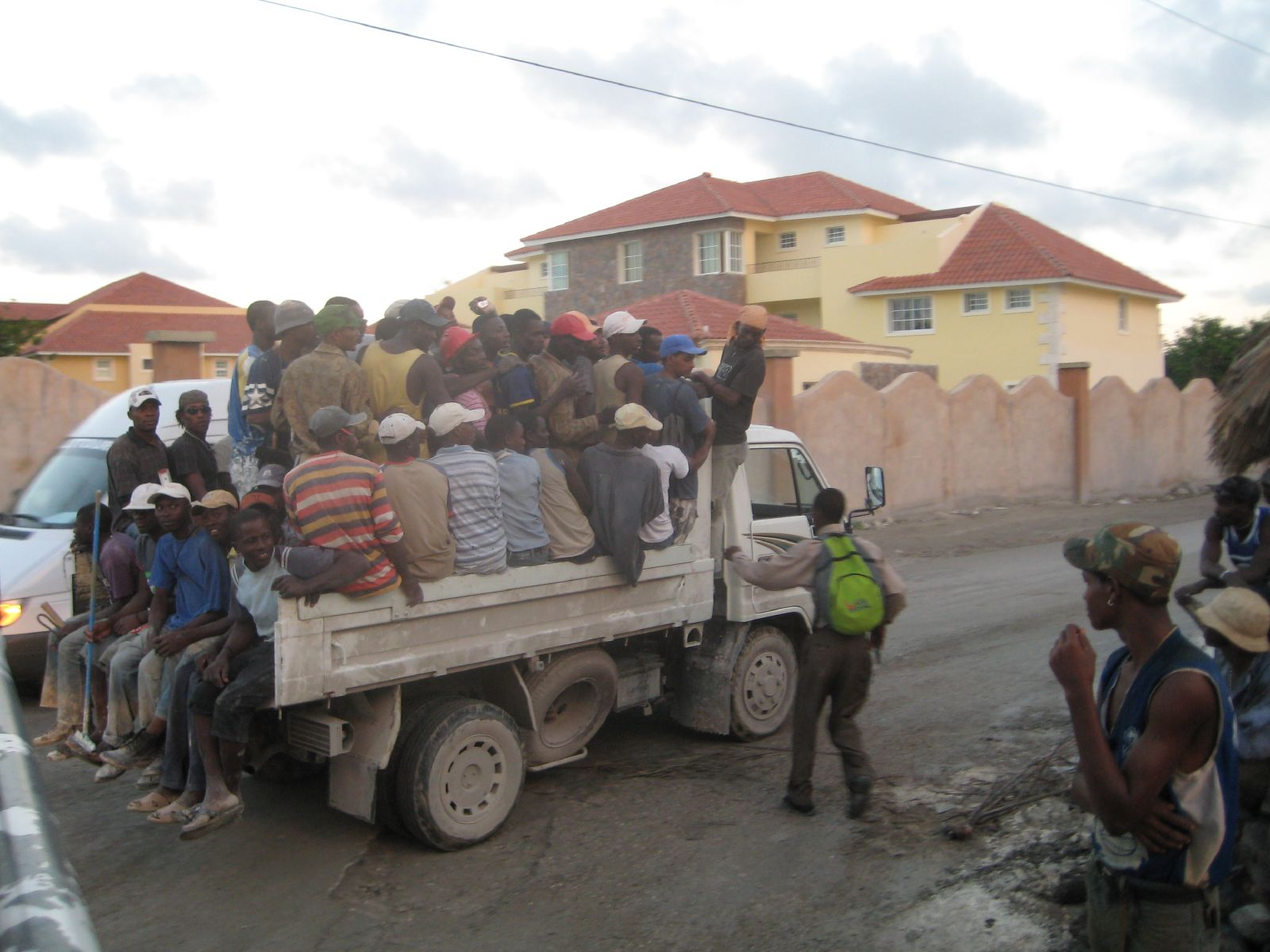 Haitian workers being transported in Macao, Punta Cana